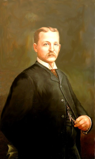 The portrait of Samuel Thomas Greene by Ambrose W. Mason. Donated to Sir James Whitney School of the Deaf in July 1924.